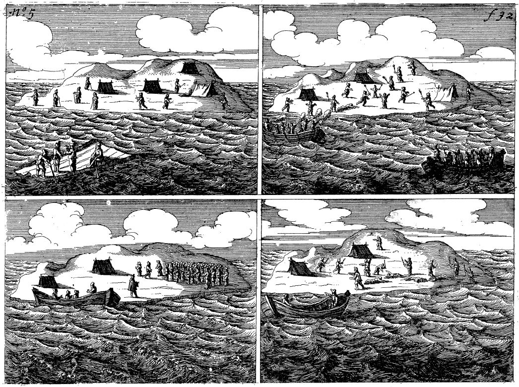 This is an image of Plate 5 from the 1647 Dutch book Ongeluckige voyagie, van't schip Batavia ("Unlucky voyage of the ship Batavia"). In the original work this plate followed Page 32.